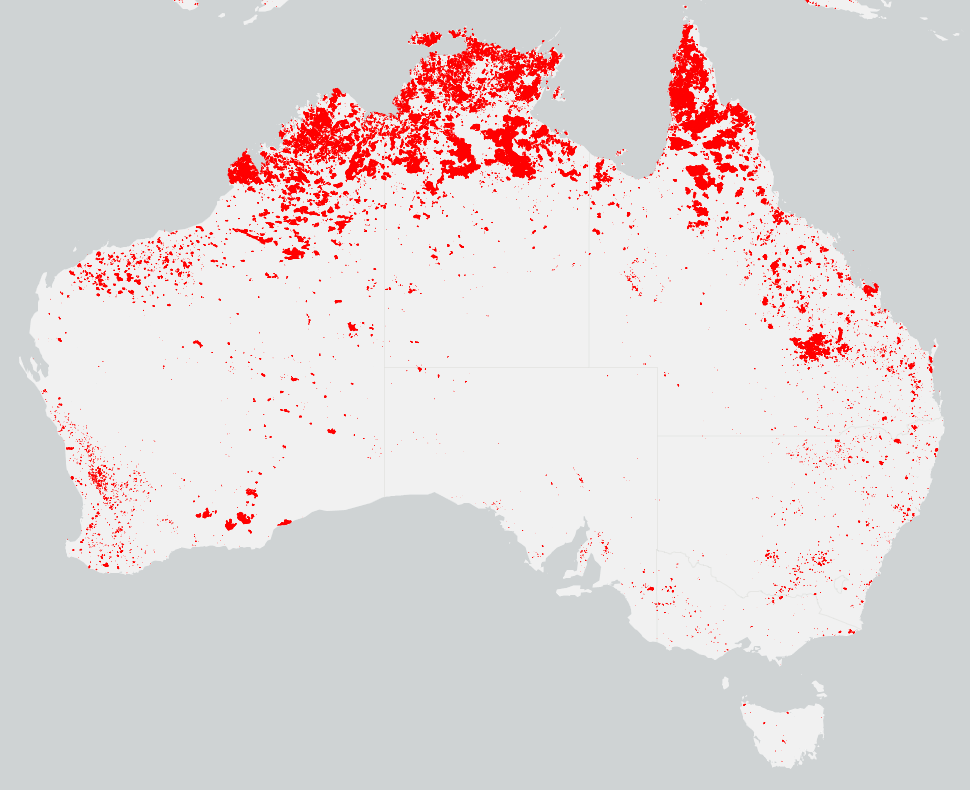 Burned areas shown in red detected by NASA's MODIS imaging sensors onboard Terra & Aqua satellites from June 2009 to May 2010. We acknowledge the use of data and imagery from LANCE FIRMS operated by NASA's Earth Science Data and Information System (ESDIS) with funding provided by NASA Headquarters.